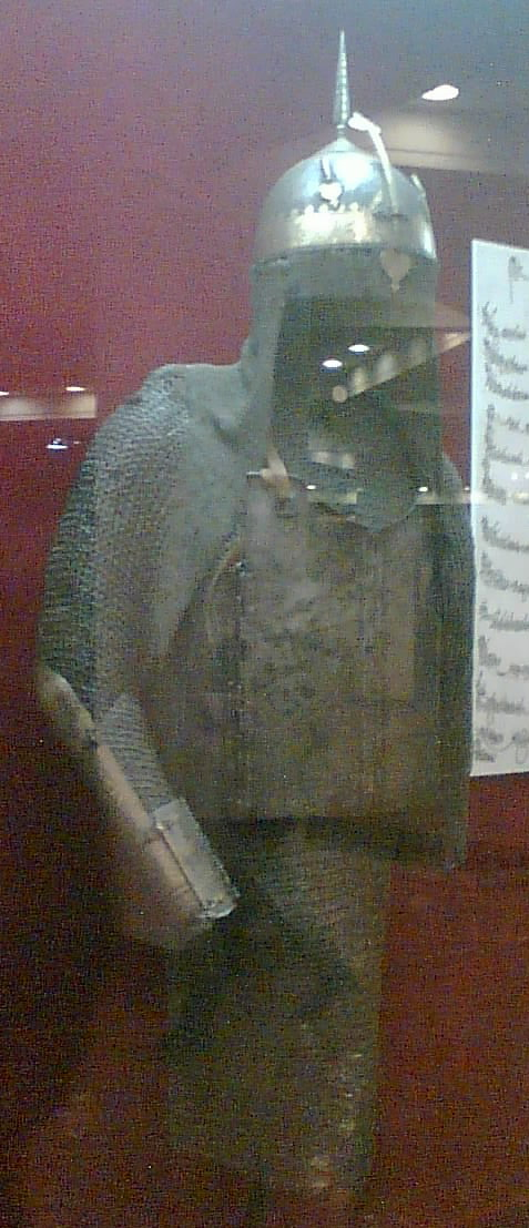 Late shar-ayna cuirass